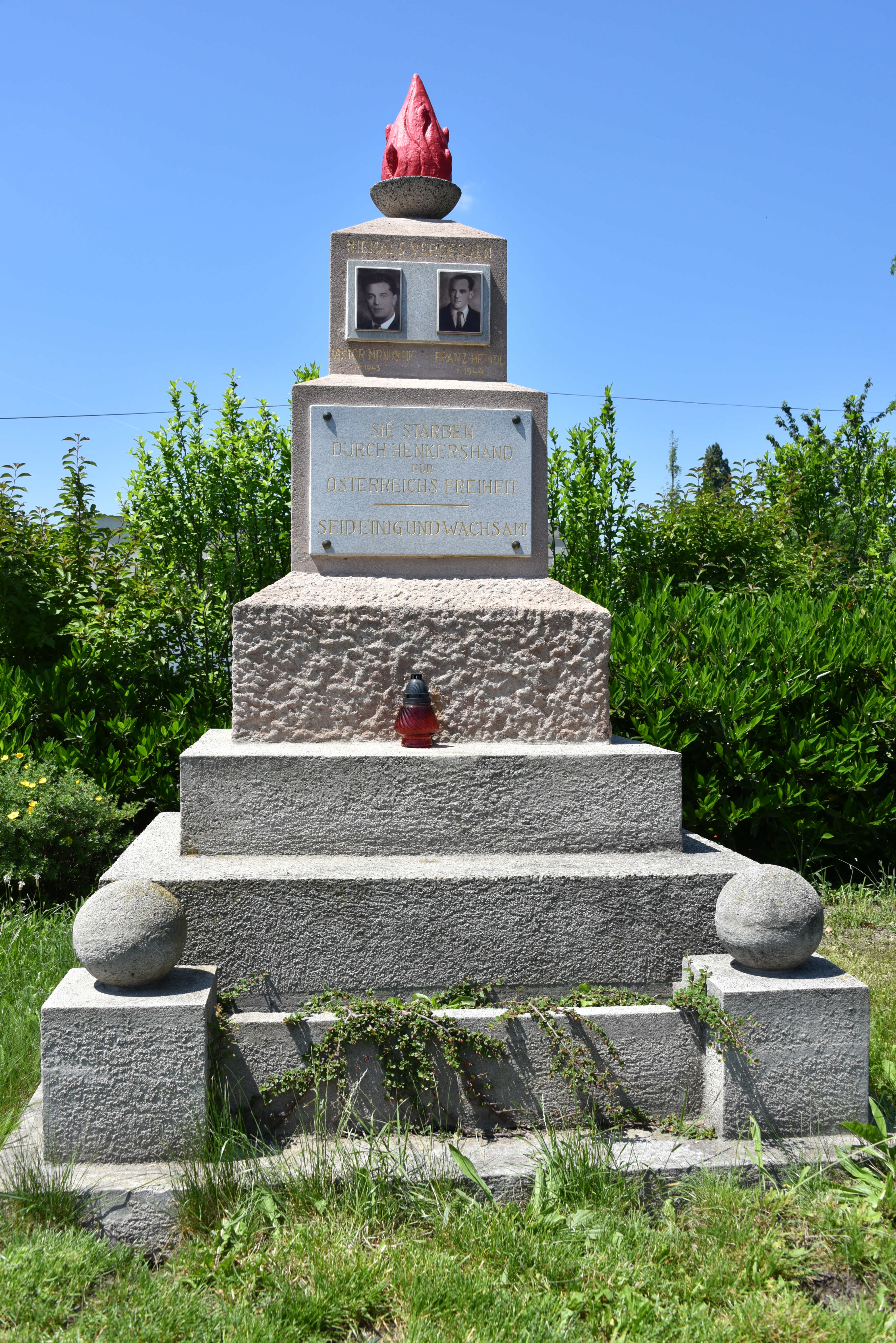 Memorial for Franz Heindl and Viktor Mrnustik in front of Friedhof Liesing in Vienna